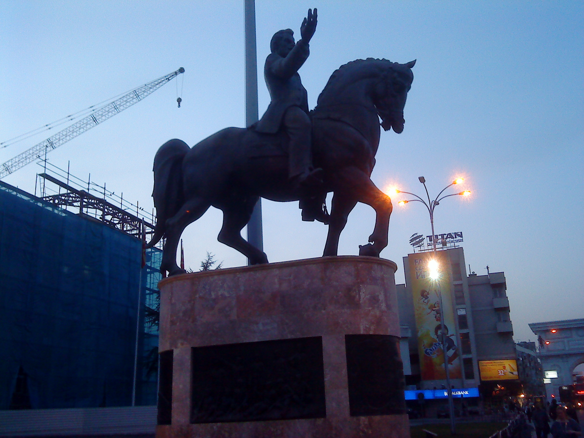 Monument of Nikola Karev in Skopje